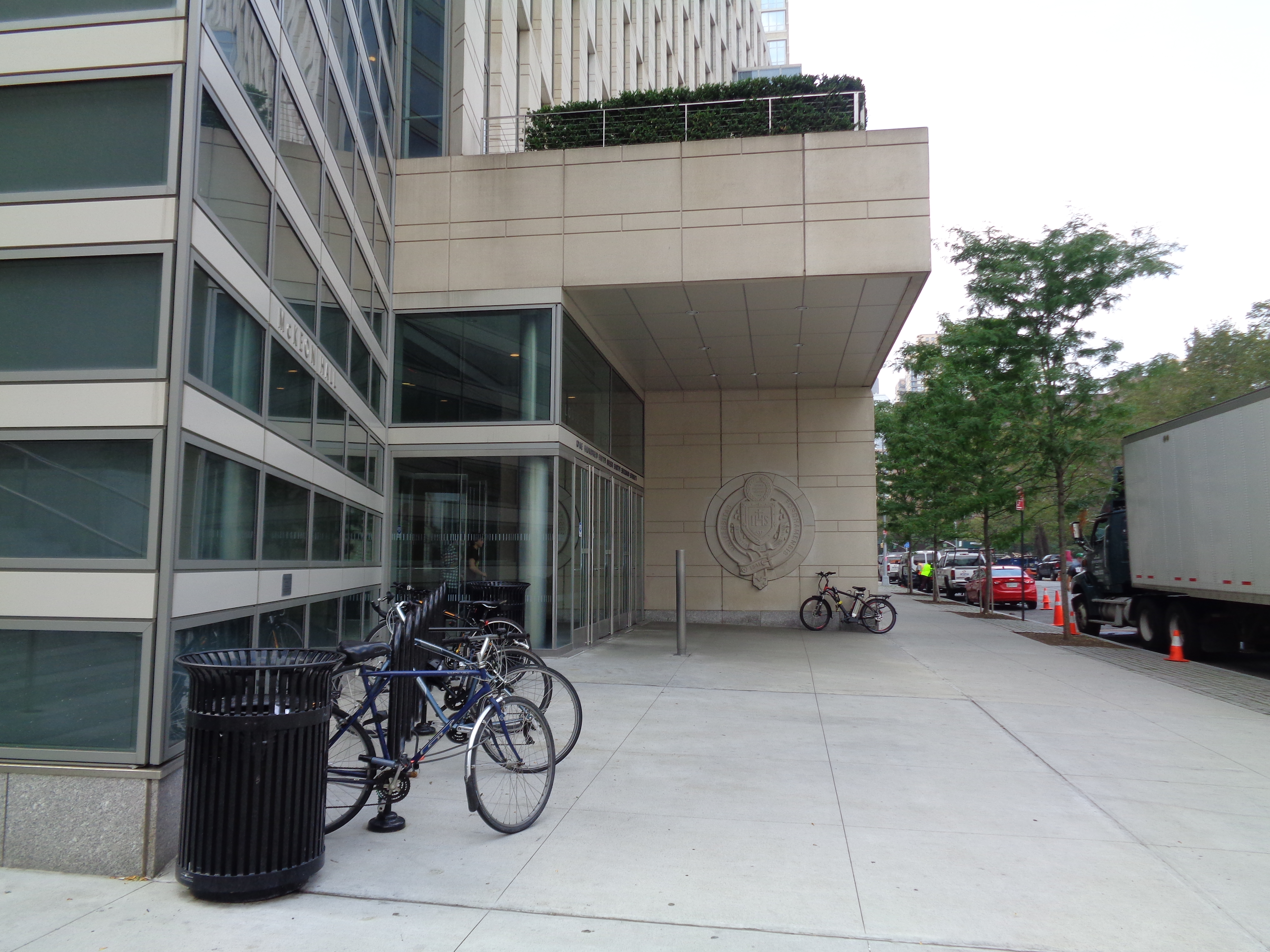 the Lincoln Center Campus of Fordham University, West 61st Street in Lincoln Center, Manhattan.